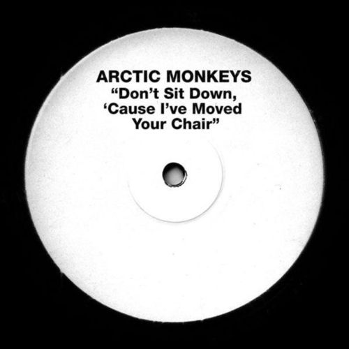 The "Limited Edition White-Label" artwork for Arctic Monkeys' single "Don't Sit Down 'Cause I've Moved Your Chair"